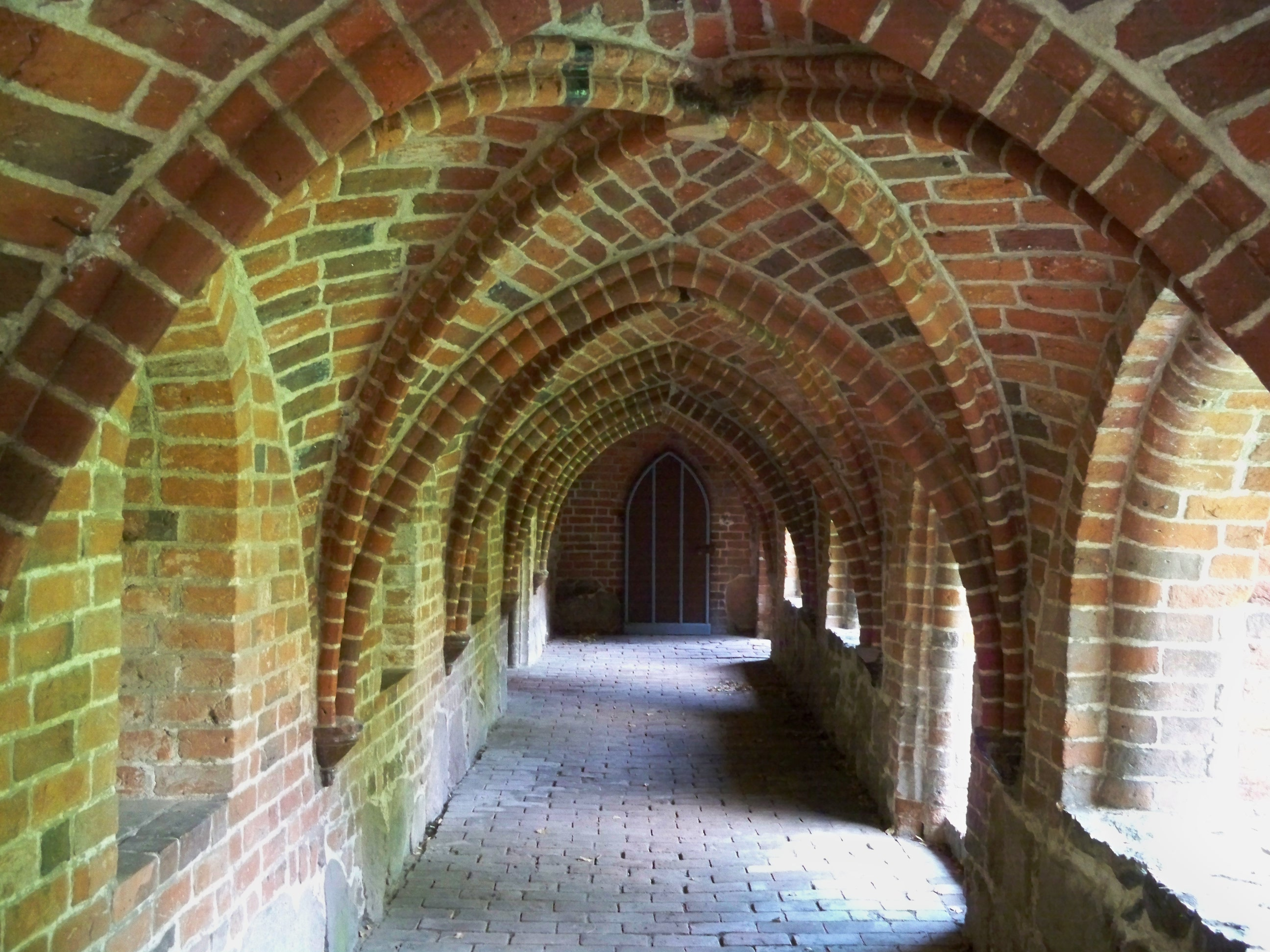 Kloster Neuendorf, Gardelegen, Saxony-Anhalt, part of refectory of former monastery